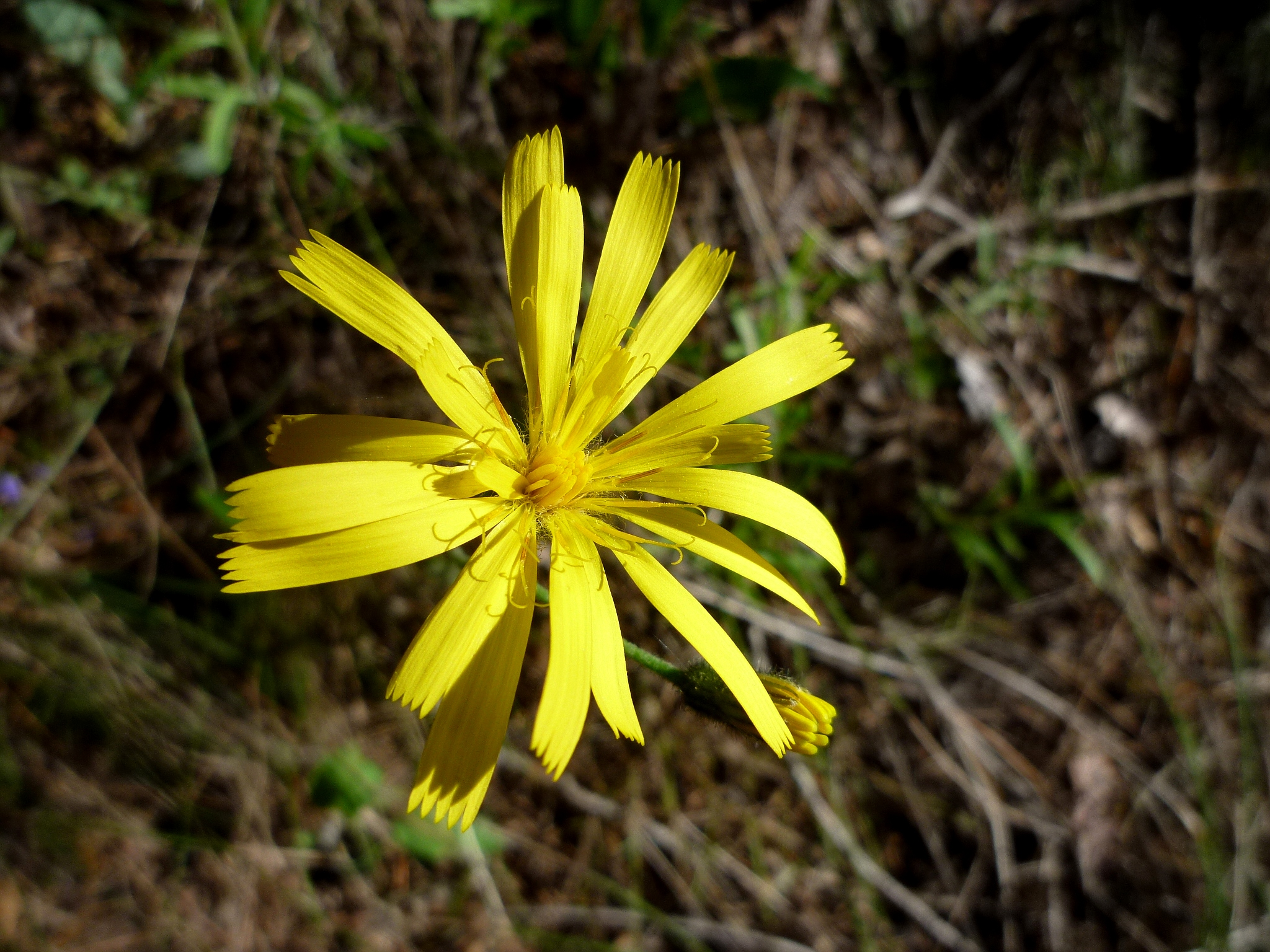 Hieracium glaucinum. In la Coma i la Pedra (Solsonès - Catalunya). To 1.170 m. altitude